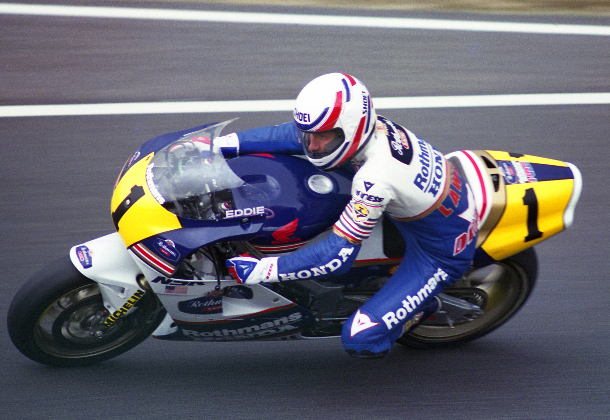 Eddie Lawson, 1989 Japanese GP